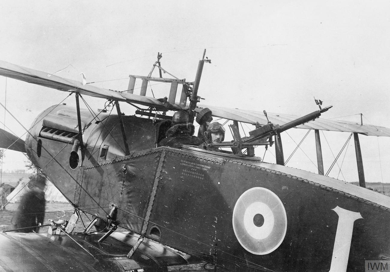 View of 4 gun Bristol fighter of 22 sq. on field of Agincourt July 1918 with pilot and gunner. Monmouth Museum Identity Number: M1996